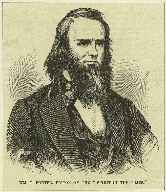 Wm. T. Porter, editor of the Spirit of the Times / Pierce. From the collection of Thomas Addis Emmet, 1828–1919.